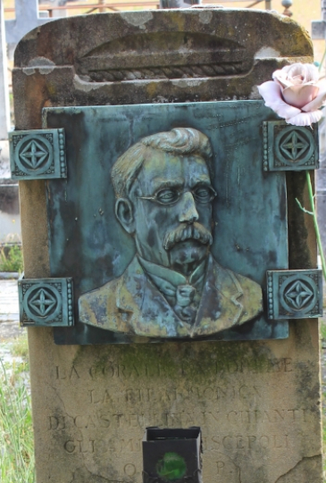 Funerary stele with portrait of Leopoldo Pieroni (Florence Cemetery)